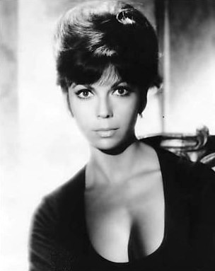 Publicity photo of Nancy Sinatra.